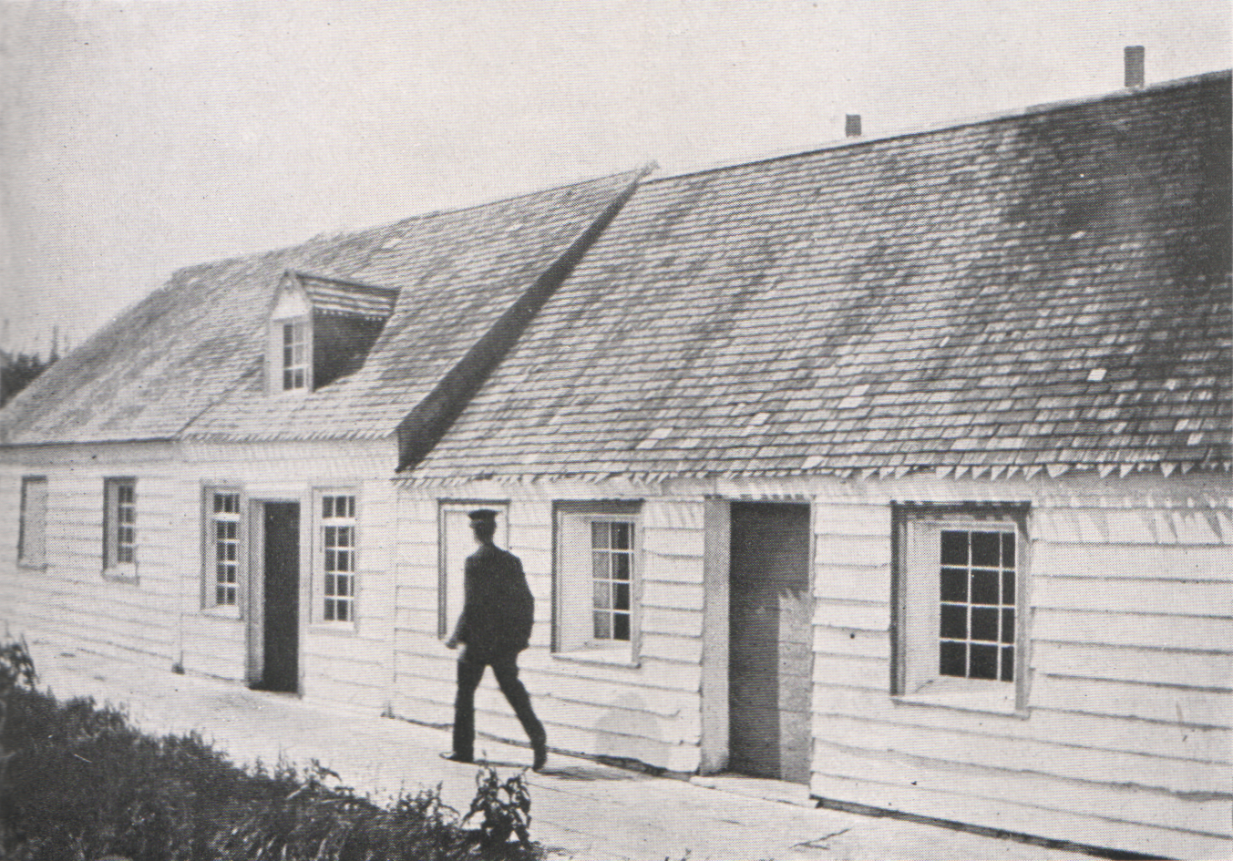 Emil Brass (German fur trader, consul, *1856; +1938): Aus dem Reiche der Pelze (From the Empire of Furs). Publisher: Neue Pelzwaren-Zeitung, Berlin 1911. 709 pages, cloth cover. 17,5 x 26 cm.